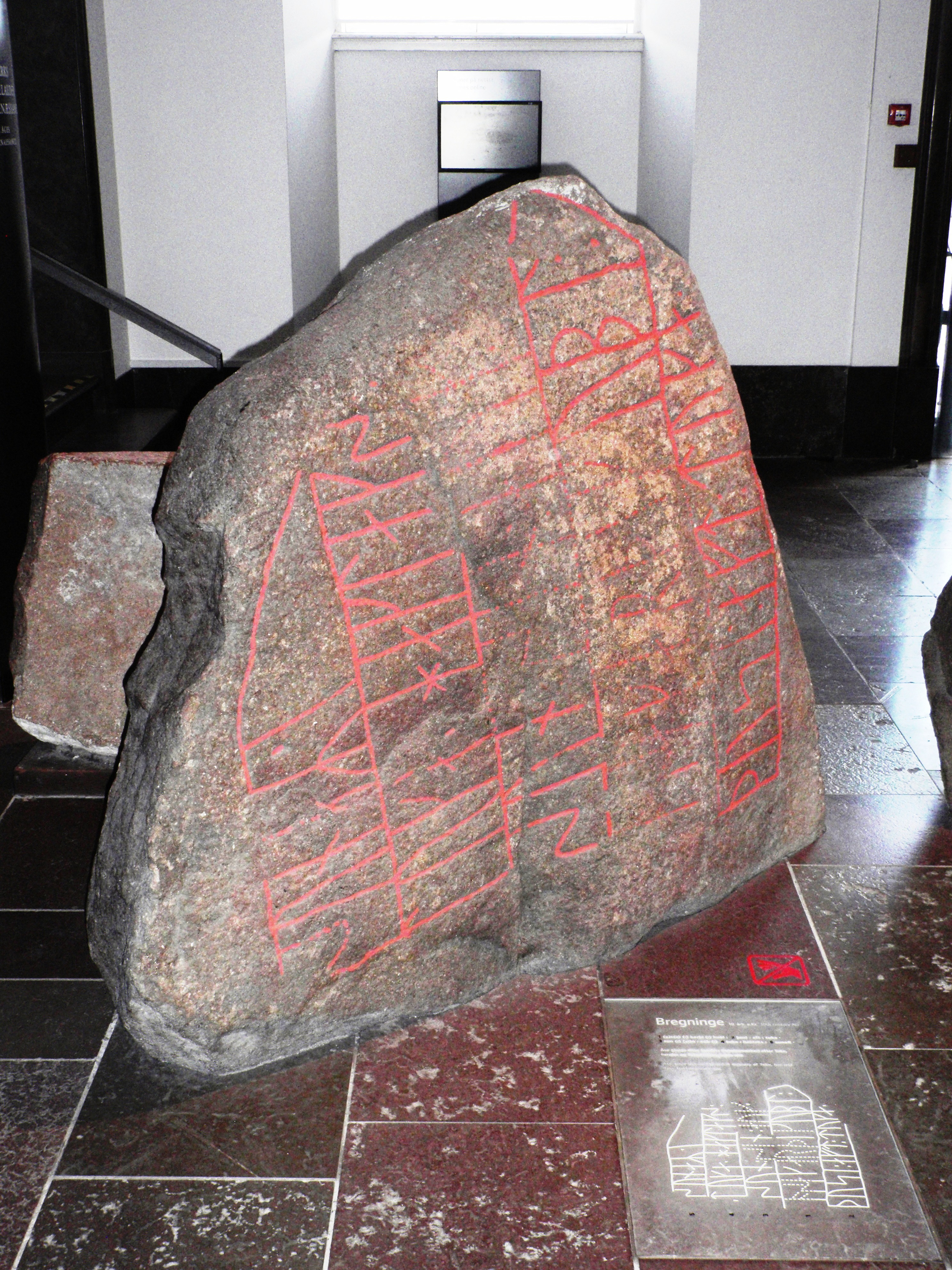 Bregninge rune-stone in the Danish National Museum